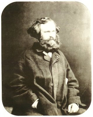 Portrait of Arsène Houssaye